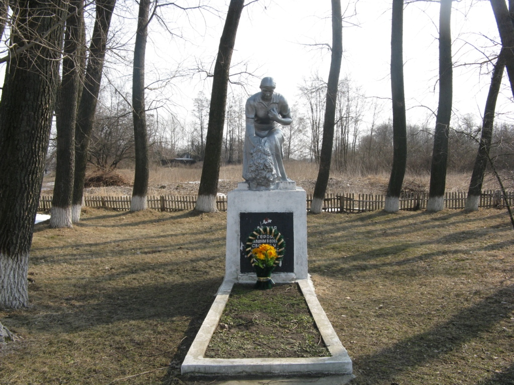 Monument to villagers died in the Great Patriotic War. Located in the village Korneevka (Kyiv Oblast)